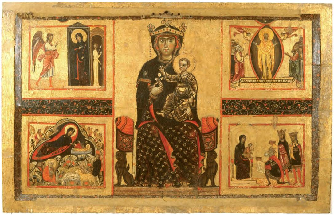 Margaritone e Ristoro d'Arezzo, Madonna col Bambino e 4 storie delle Vergine, Santa Maria delle Vertighe